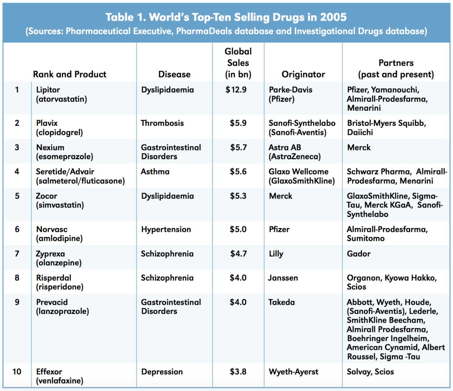 Co-promotion in the pharmaceutical industry